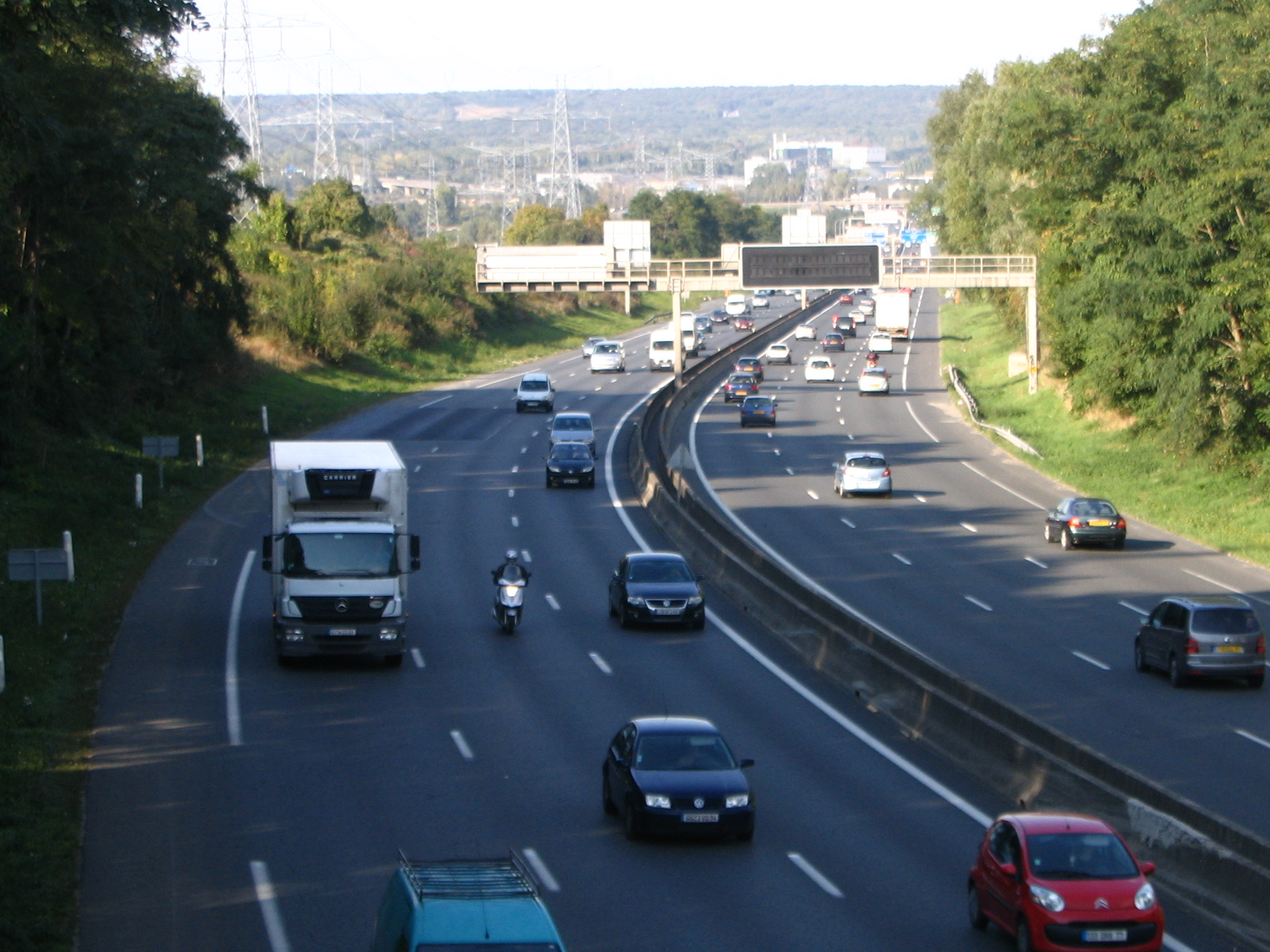 Highway A104 in Torcy, Seine-et-Marne, France.